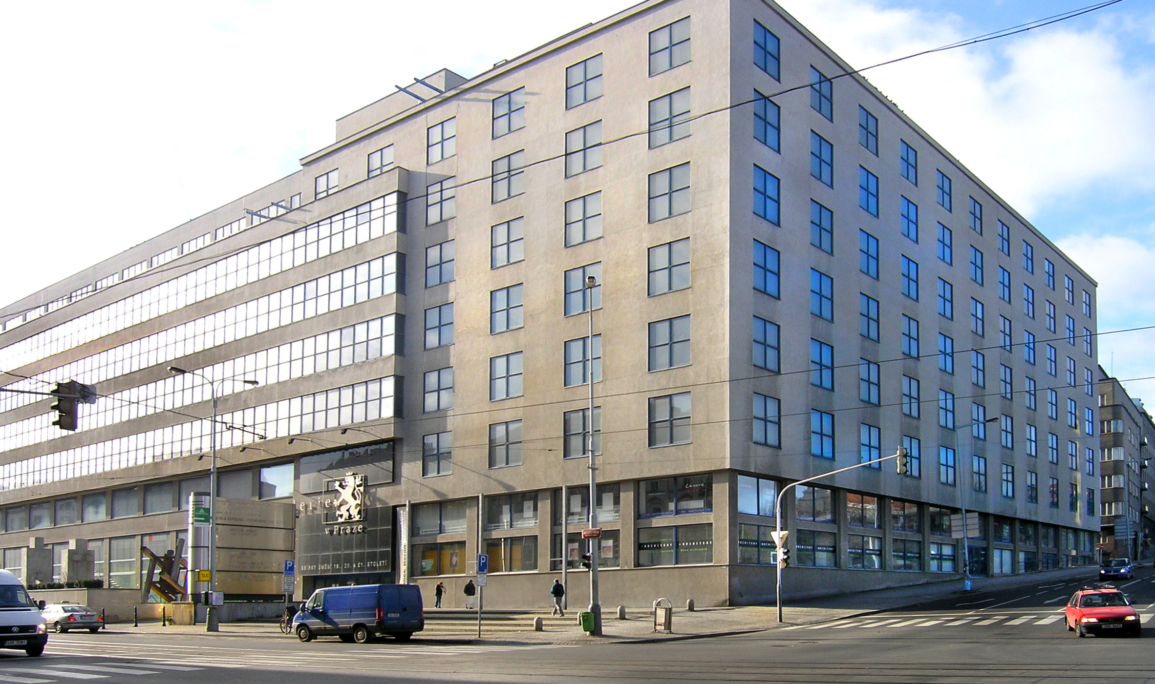 Trade Fair Palace from east, Prague